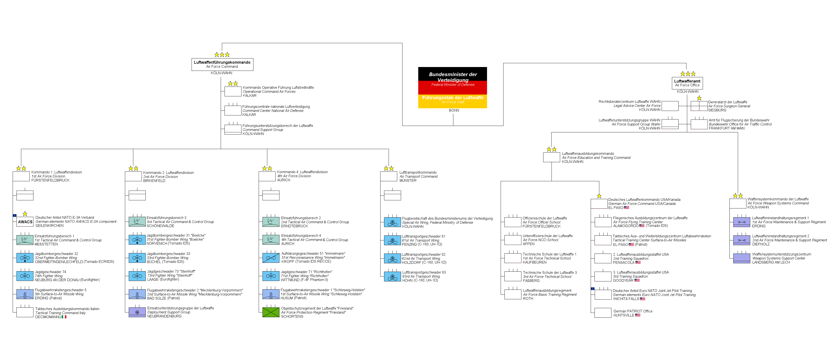 Structure of the German air force in 2008